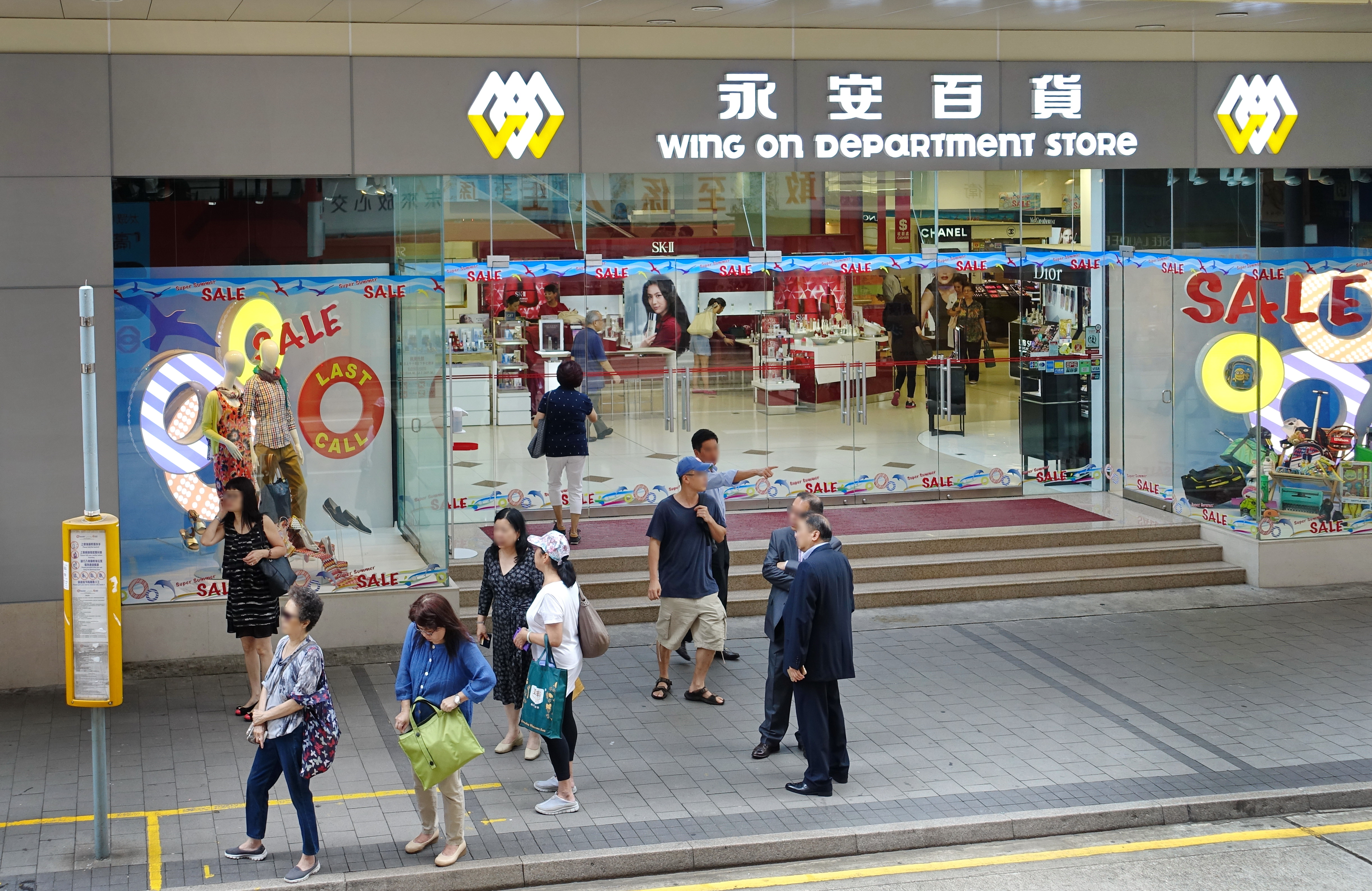 Main entrance of the Wing On Department Store, Sheung Wan, Hong Kong.